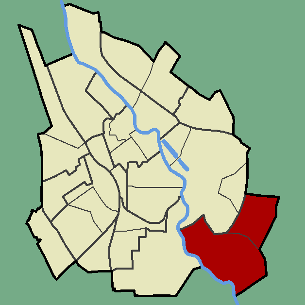 Locator map of Ihaste, Tartu, Estonia.